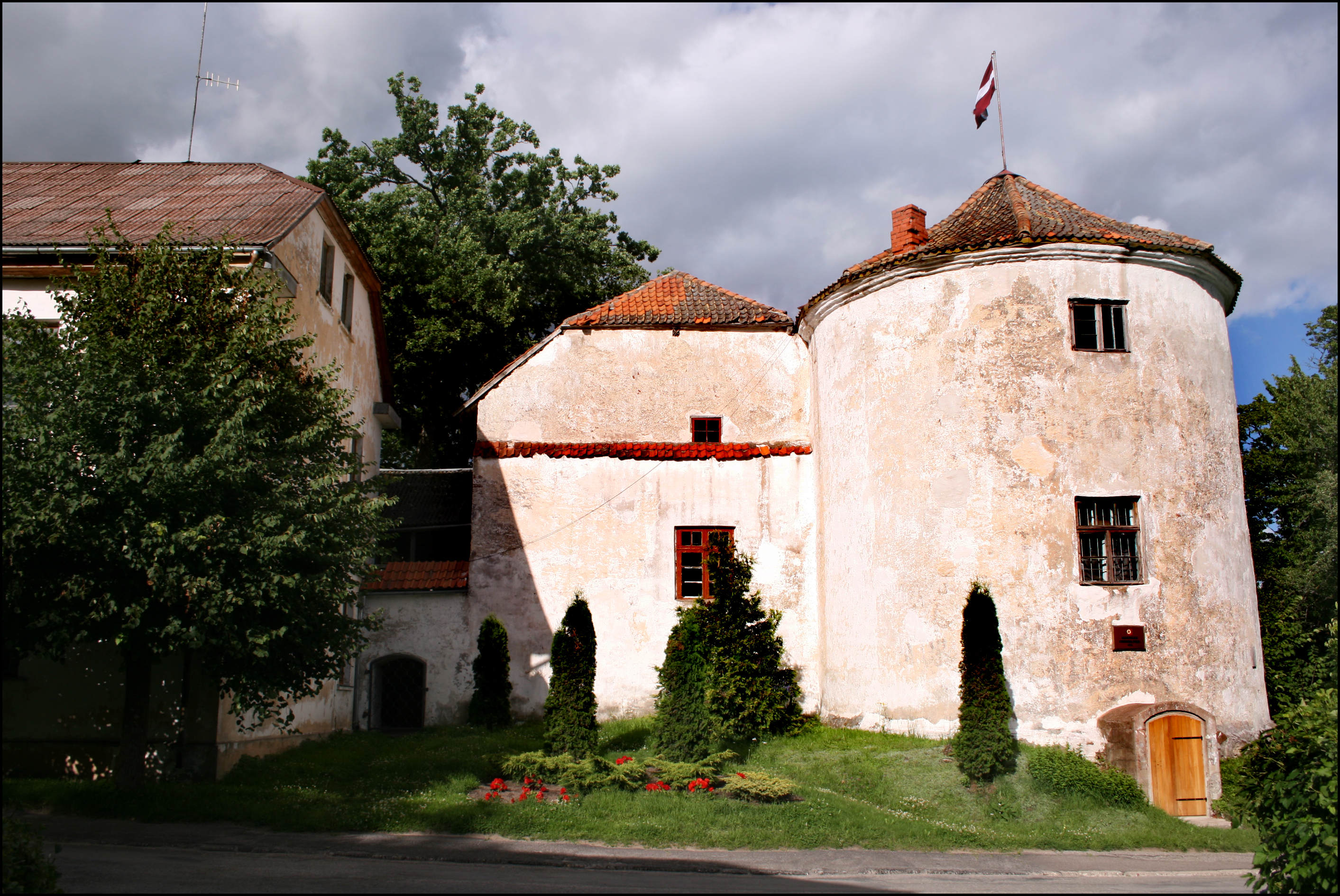 Alsunga Castle towerLatviešu: Alsungas pils tornis